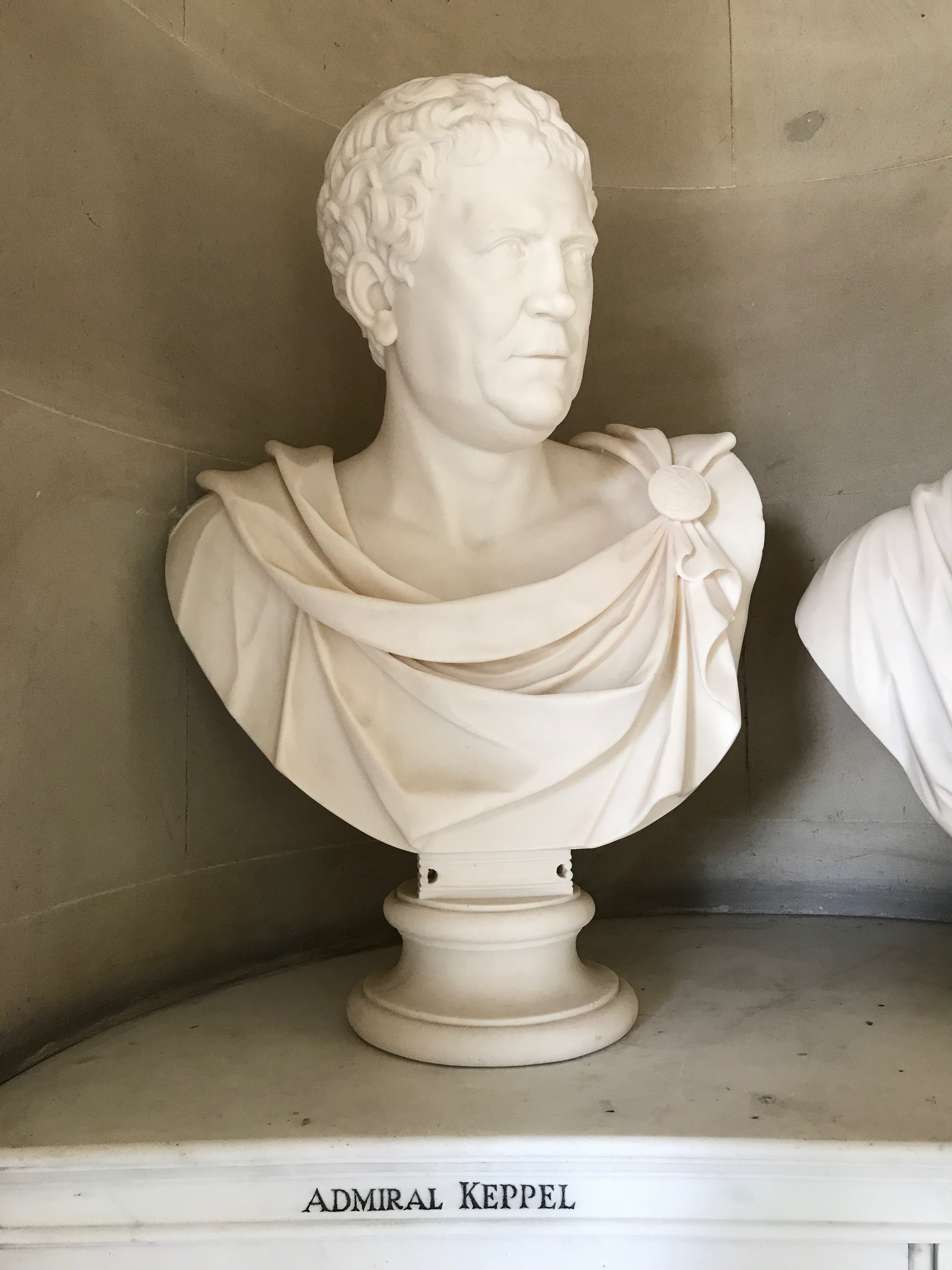 A bust of Admiral Keppel on display at the Mausoleum in Wentworth, South Yorkshire